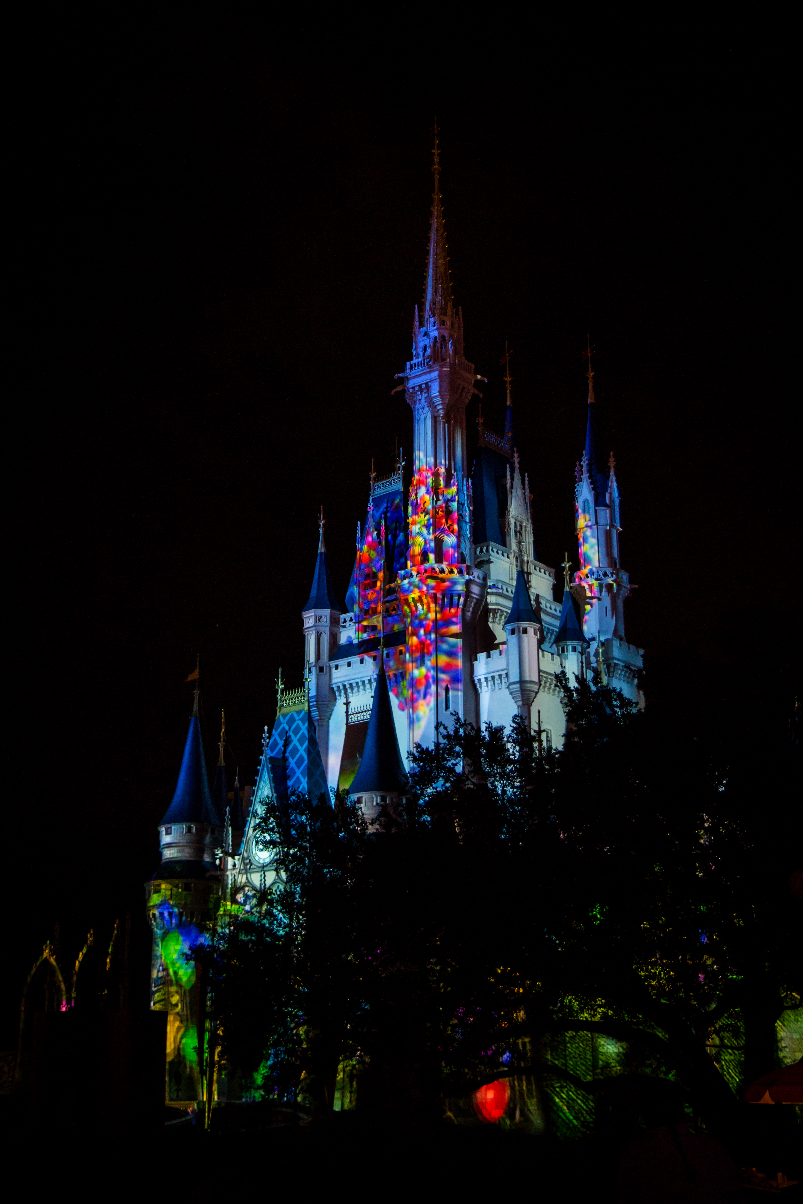 Celebrate the Magic from Fastpass+ viewing area